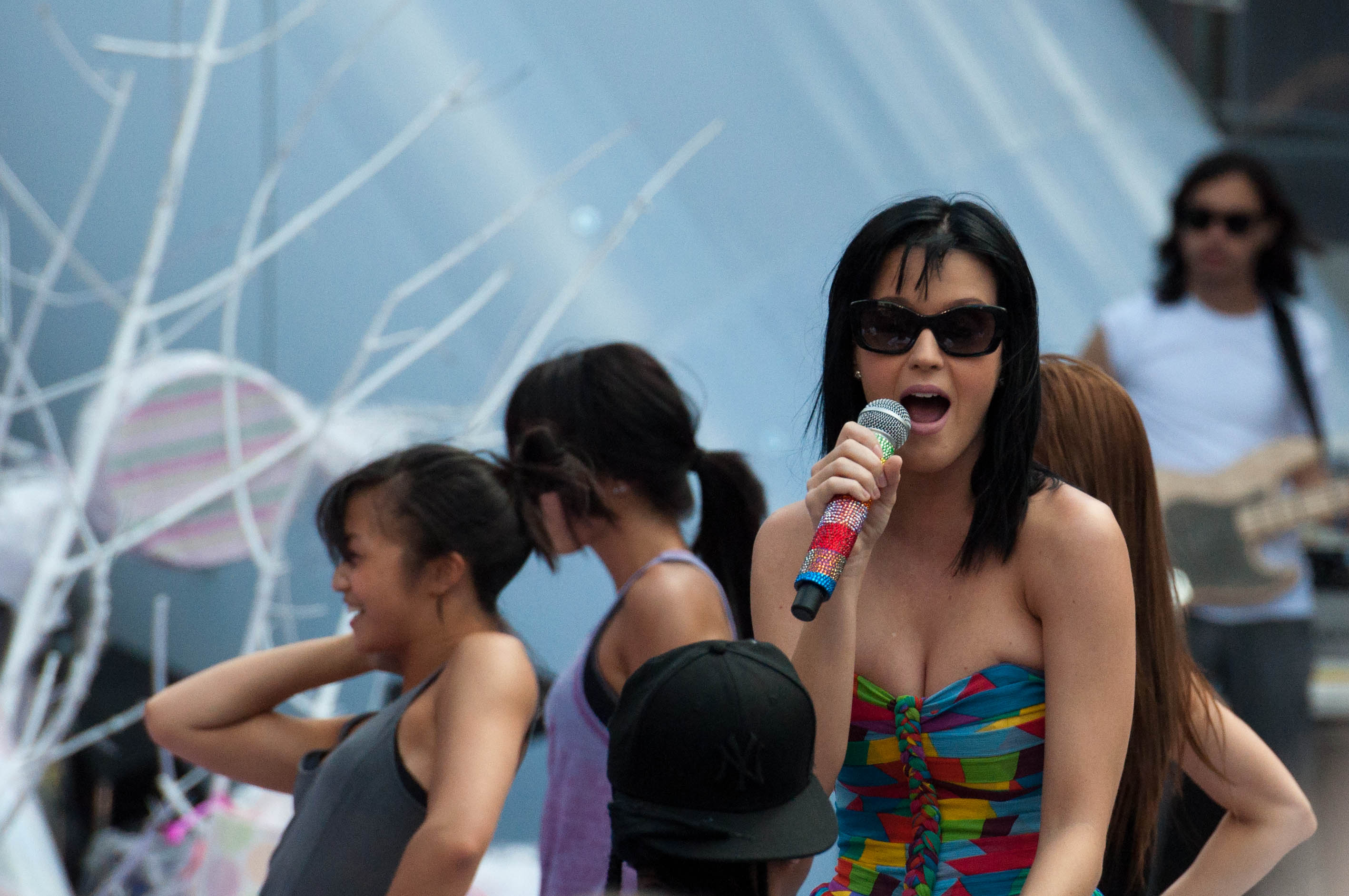 Katy Perry - MMVA Soundcheck